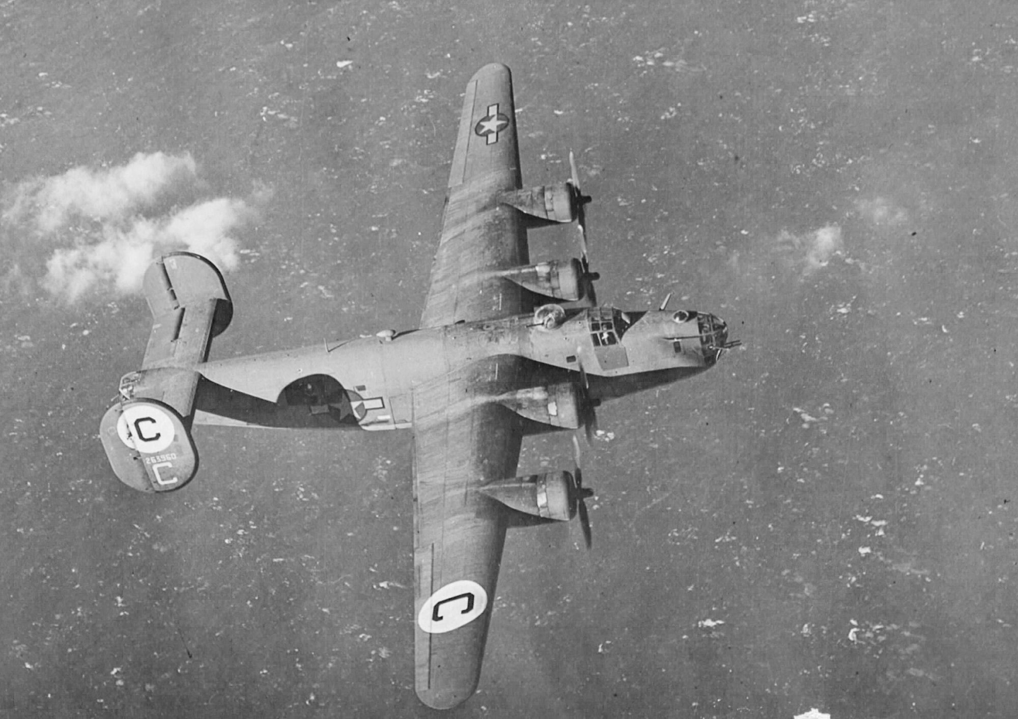 Named "Dorothy" B-24D-15-CF Liberator s/n 42-63960 564th Bomb Squadron, 389th Bomb Group, 8th Air Force. on raid over Congac France Photo date: 8 February 1944